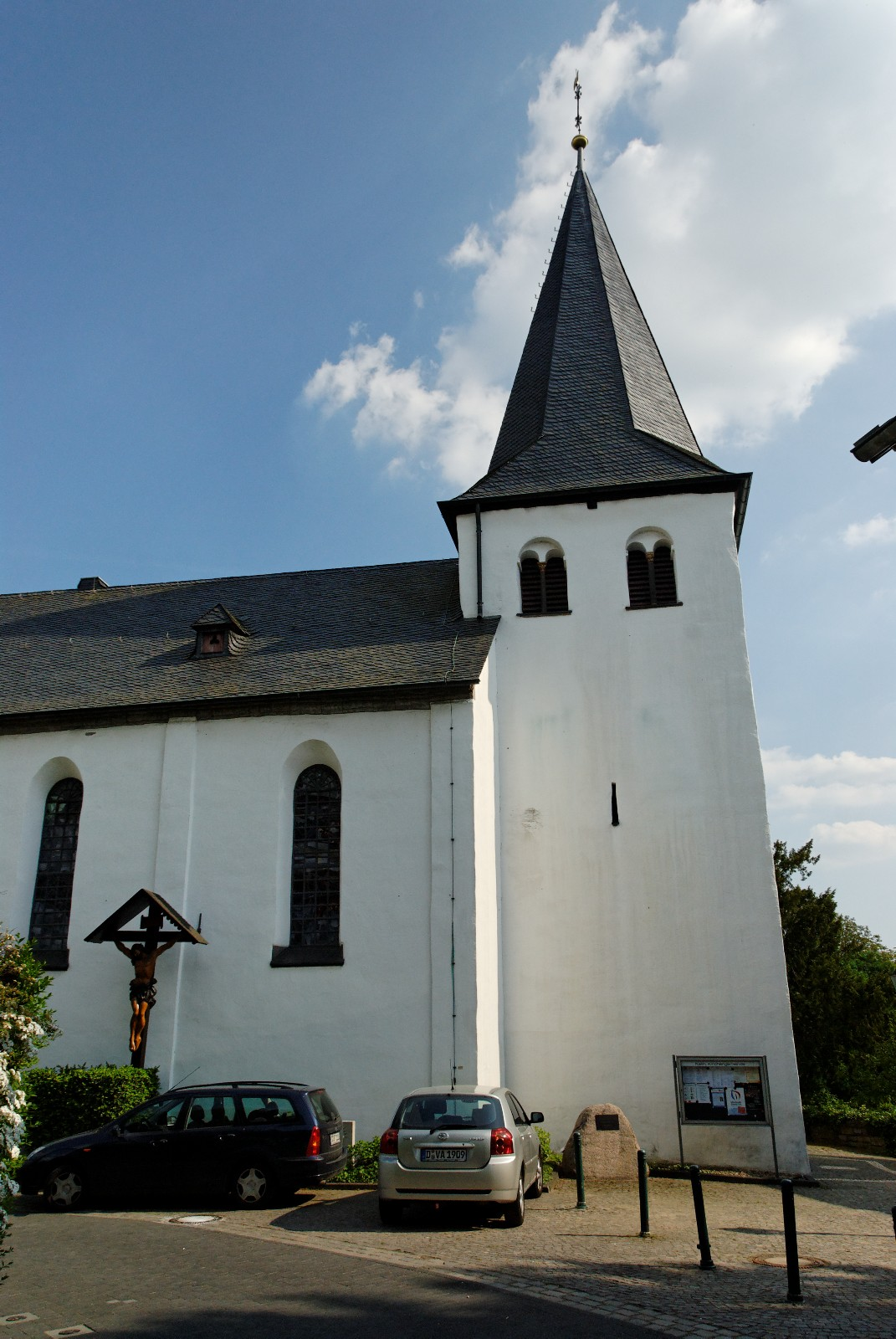 Saint Cecilia in Düsseldorf-Hubbelrath, Germany